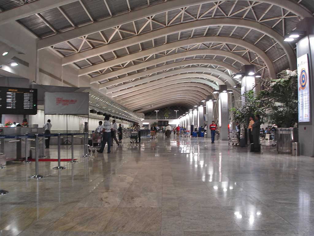 Check-in area of Mumbai airport's Terminal IB